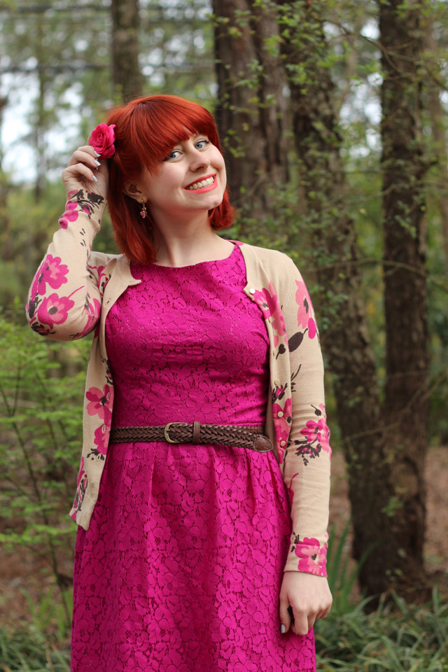 Flower Hair Clip, Red Hair, and a Pink Dress Model